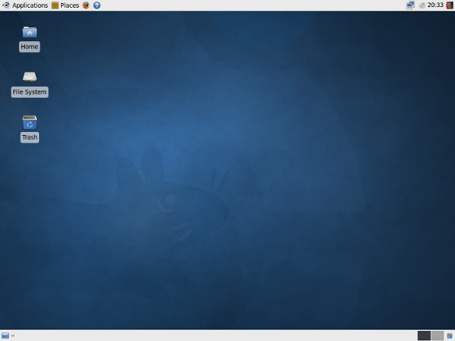 Screenshot of the default desktop of Xubuntu 9.04